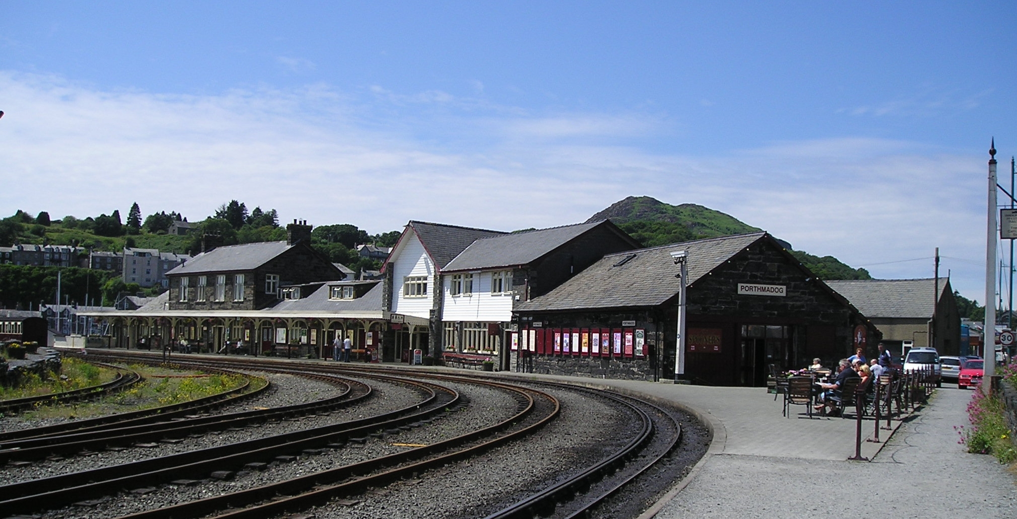 Porthmadog Harbour station of the Ffestinog Railway